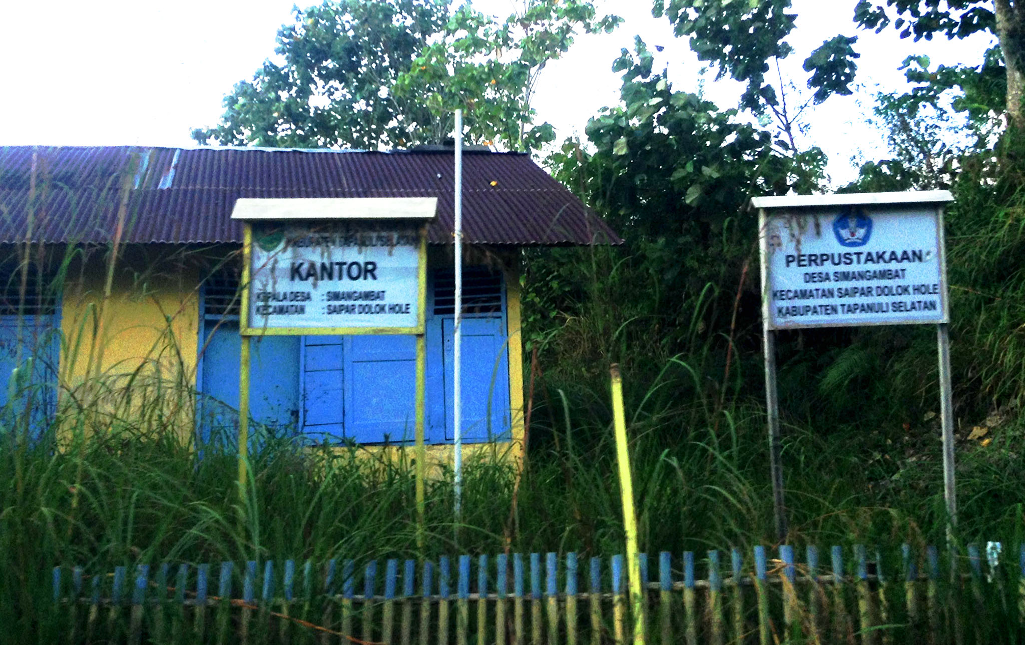 Office of Simangambat, Saipar Dolok Hole, Tapanuli Selatan